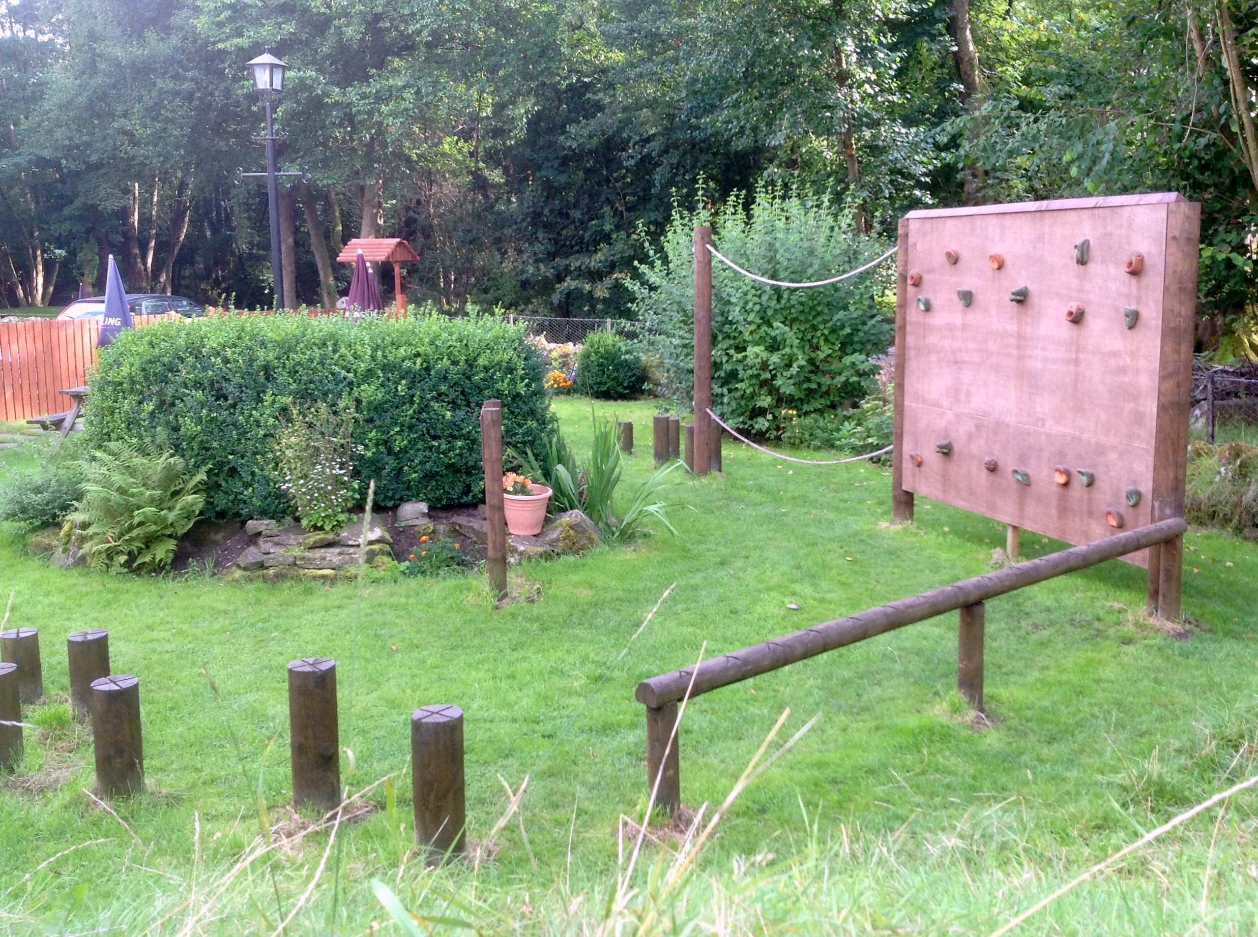 Play area and climbing wall at the Fountain Inn, Parkend, Forest of Dean, UK